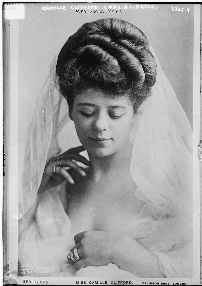 Bain News Service,, publisher. Camille Clifford (Mrs. H.L. Bruce) (Mrs. J.M.J. Evans) [between ca. 1910 and ca. 1915] 1 negative : glass ; 5 x 7 in. or smaller. Notes: Title from unverified data provided by the Bain News Service on the negatives or caption cards. Forms part of: George Grantham Bain Collection (Library of Congress). Format: Glass negatives. Repository: Library of Congress, Prints and Photographs Division, Washington, D.C. 20540 USA, General information about the Bain Collection is available at Persistent URL: Call Number: LC-B2- 3327-9